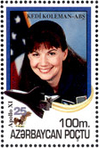 Astronaut Cady Coleman on Azeri postage stamp.